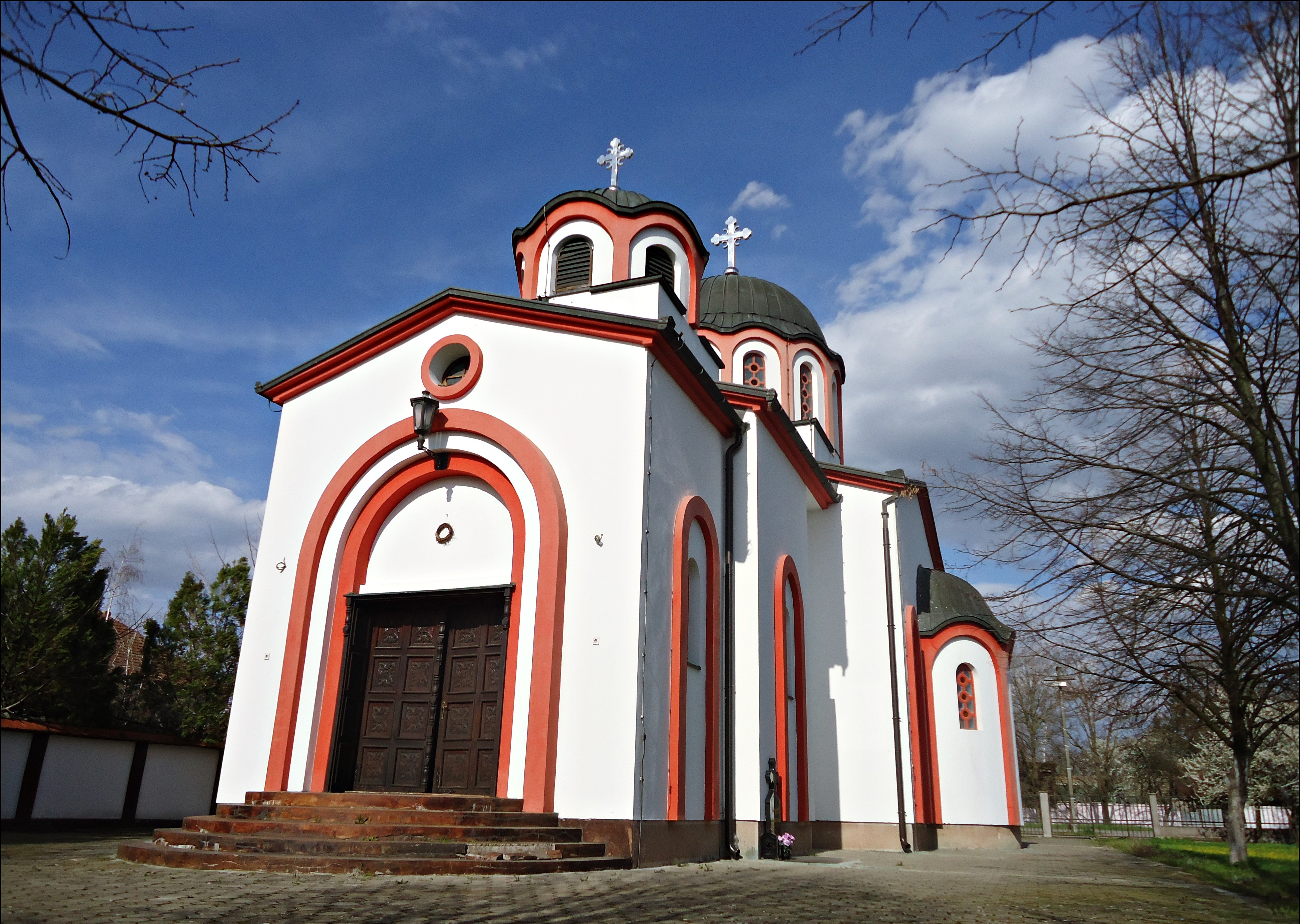 Orthodox Church